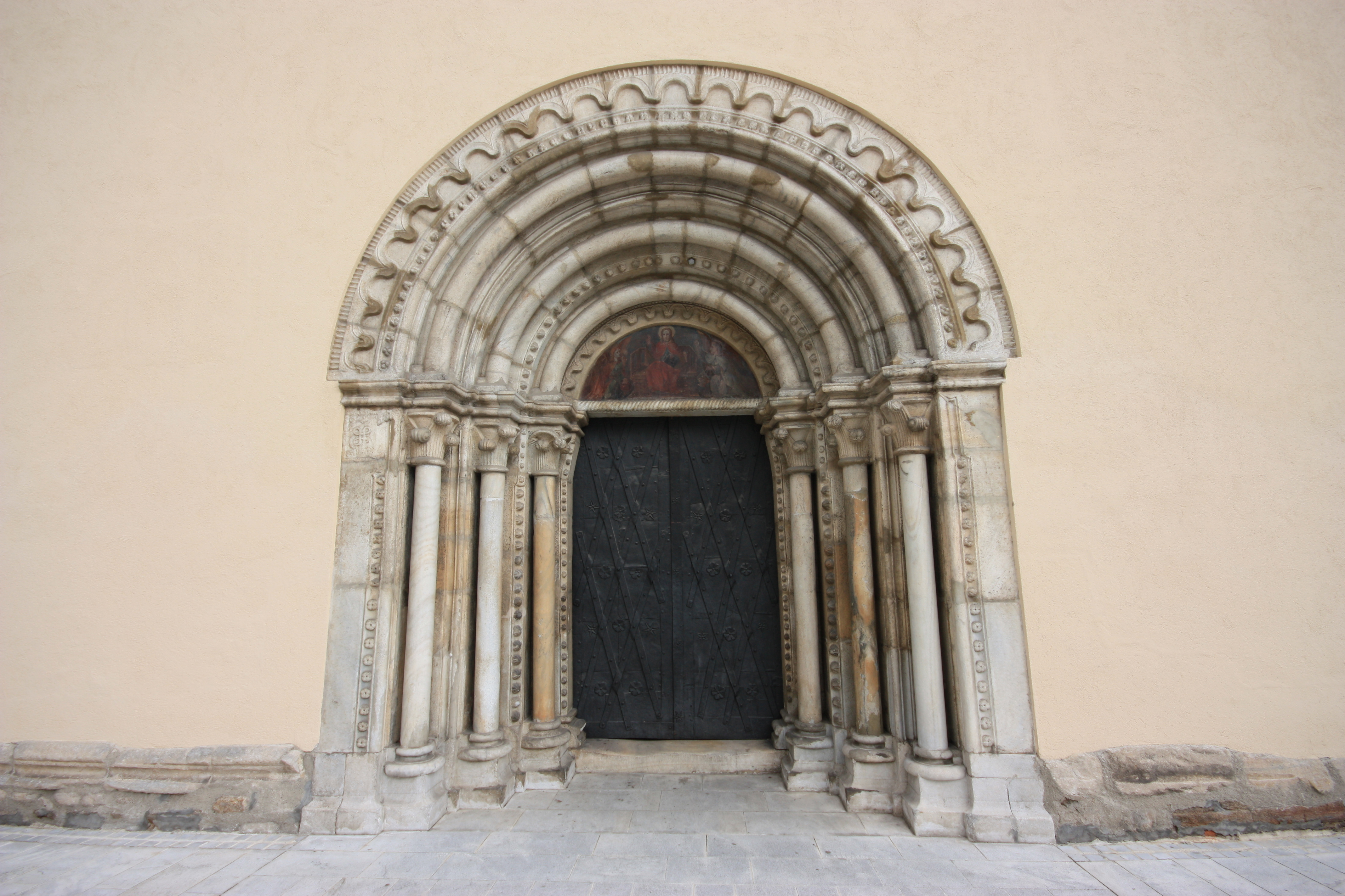 Door of the parish church in Wolfsberg, Carinthia